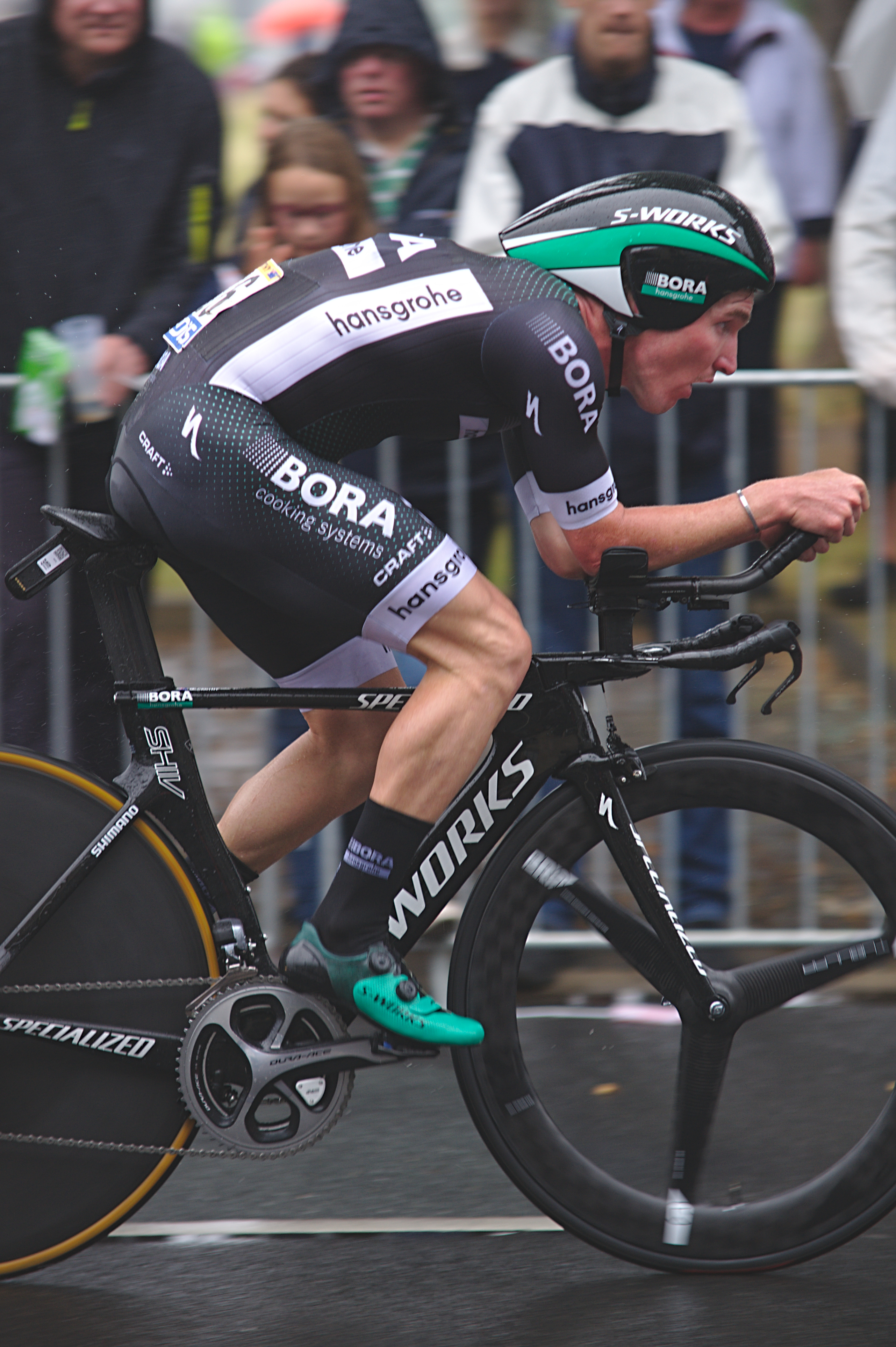 Jay McCarthy (Team Bora-Hansgrohe) competing in individual time trial at the Grand Départ in Düsseldorf, Tour de France 2017